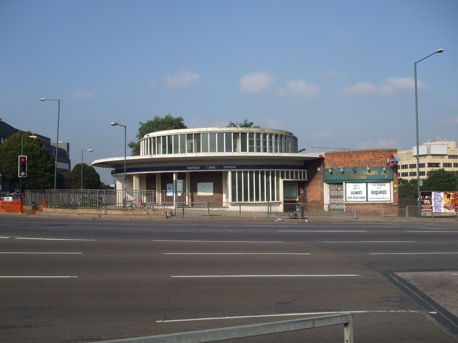 Hanger Lane tube station building looking west from the eastern side of Hanger Lane Gyratory